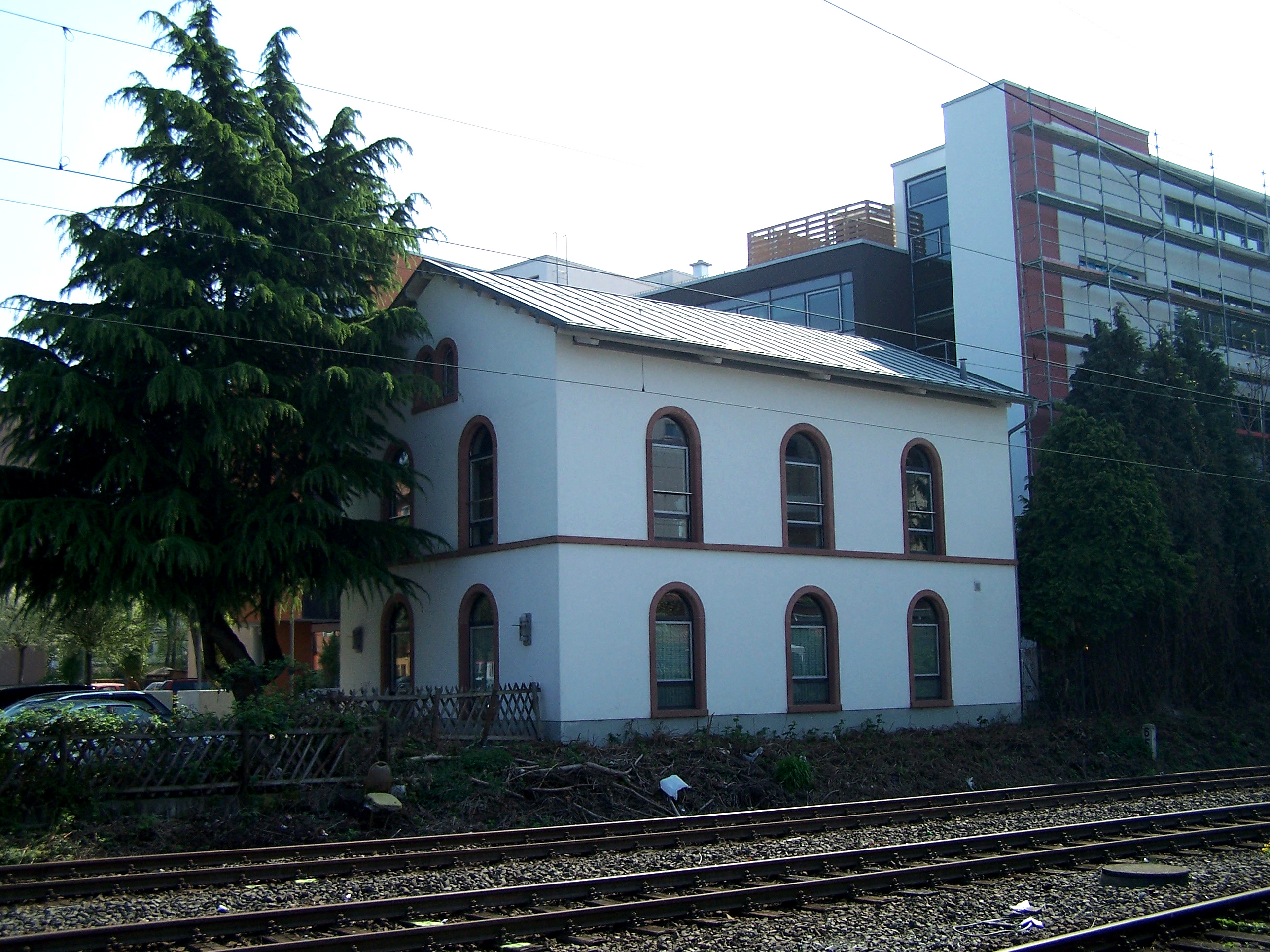 Old Frankfurt am Main-Rödelheim Station main building (1860), abandoned 1874